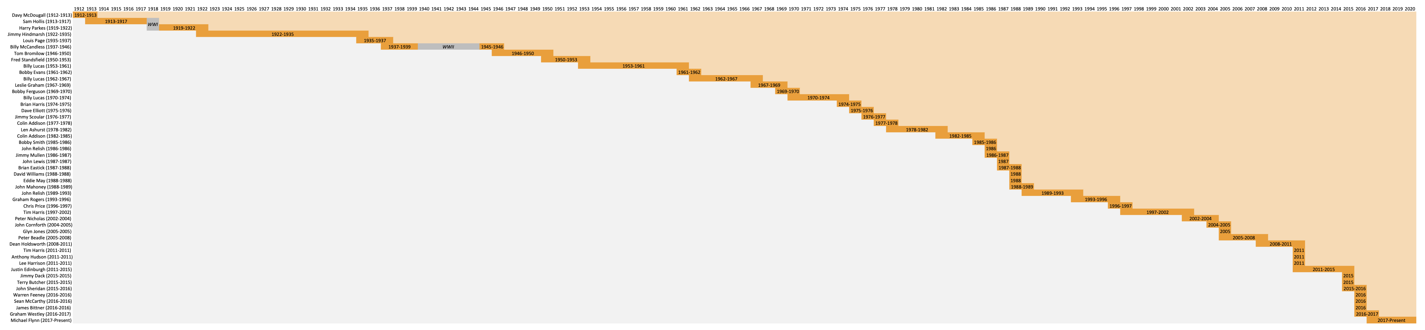 A timeline of managers at Newport County A.F.C. from 1912 to 2020 excluding two occasions where domestic football was suspended for World Wars I and II.